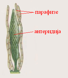 Decription: anteridija pravih (lisnatih) mahovina Source: self-made